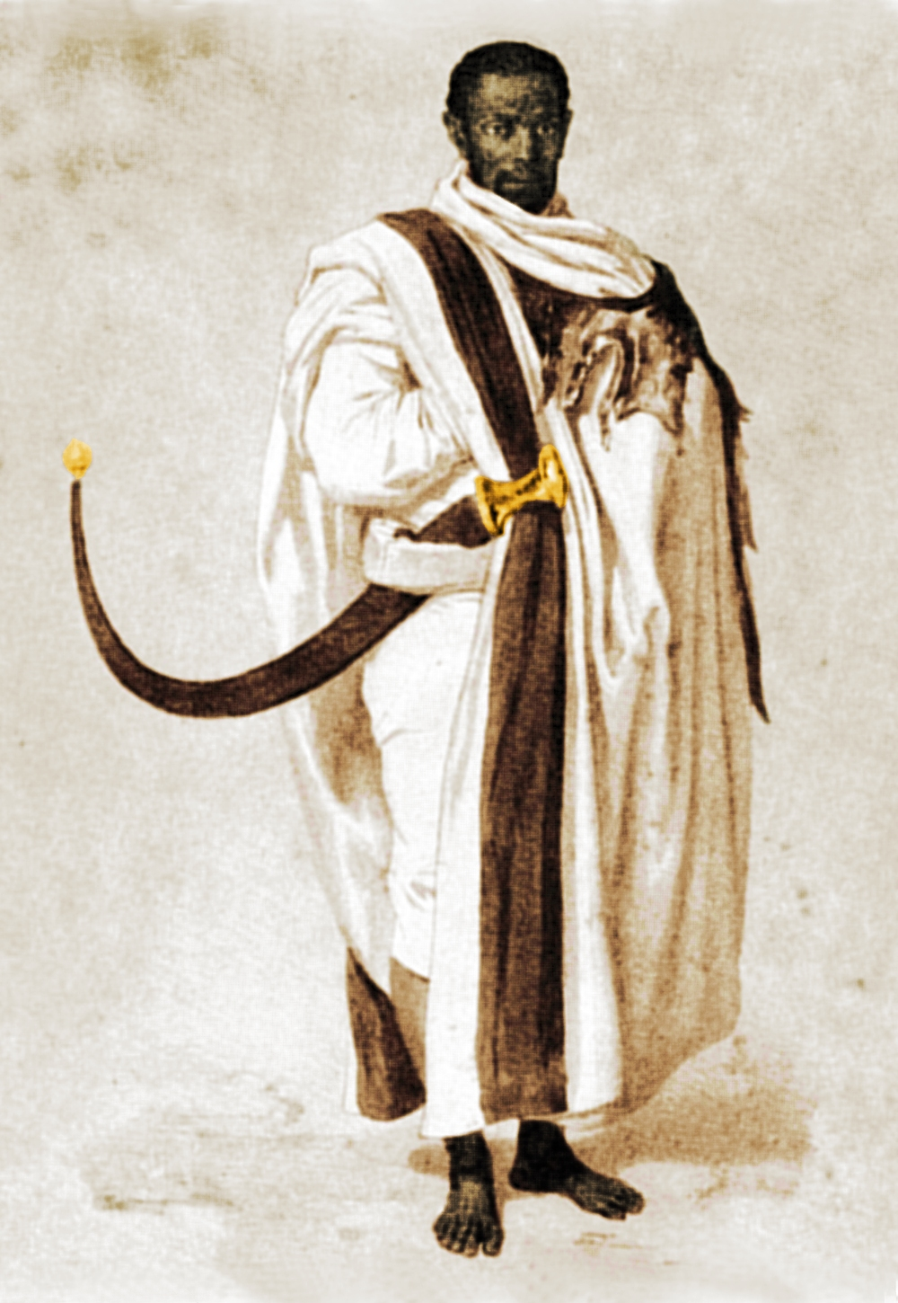 A nobleman of Tigre